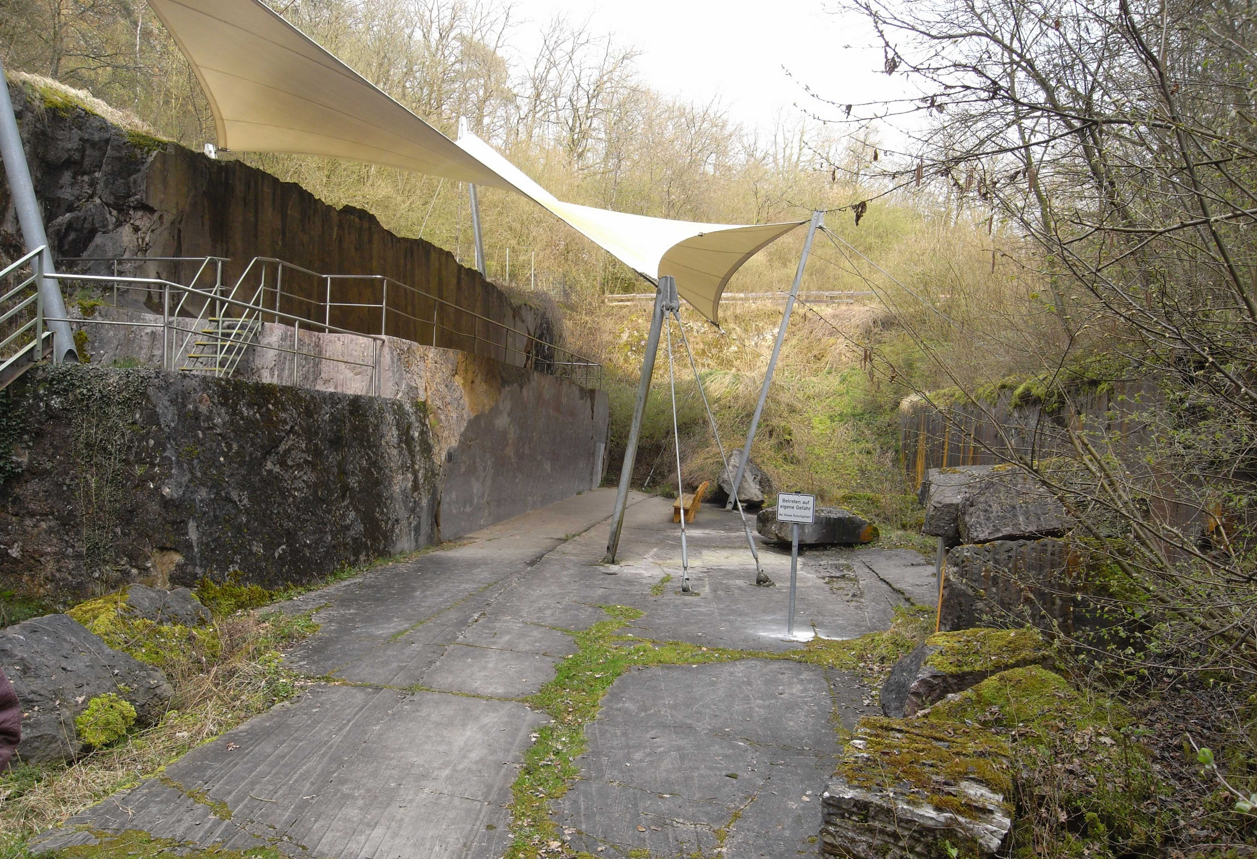 Limestone quarry “Unica”, town of Villmar, Hesse, Germany. Here the so-called “River Lahn Marble” has been quarried.